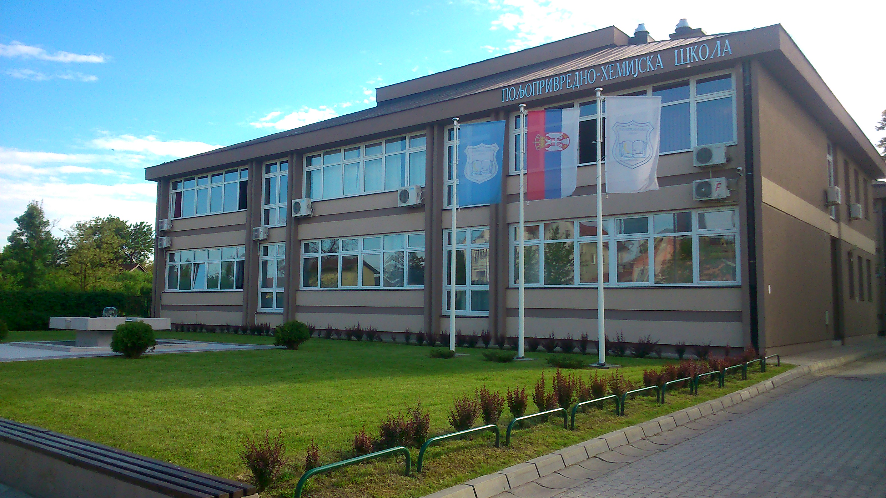 Agriculture high school Српски (ћирилица): Пољопривредно-хемијска школа у Обреновцу